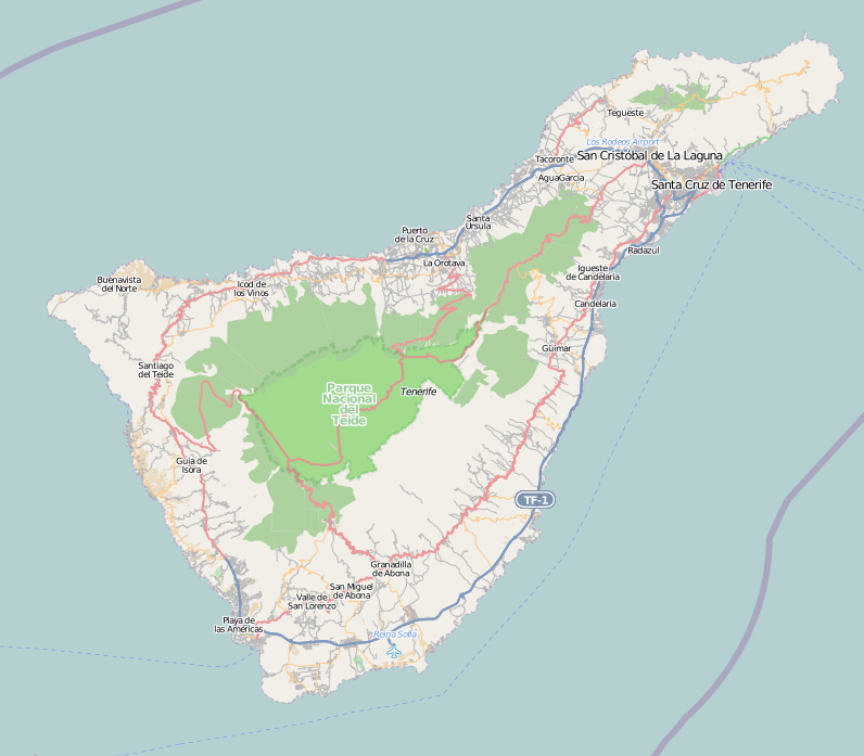 Map of Tenerife Geographic limits of the map: N: 28.623° S: 27.951 W: -16.971° E: -16.1°